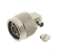 N Right Angle Direct Male Solder for RG402/Semi-rigid .141 cable